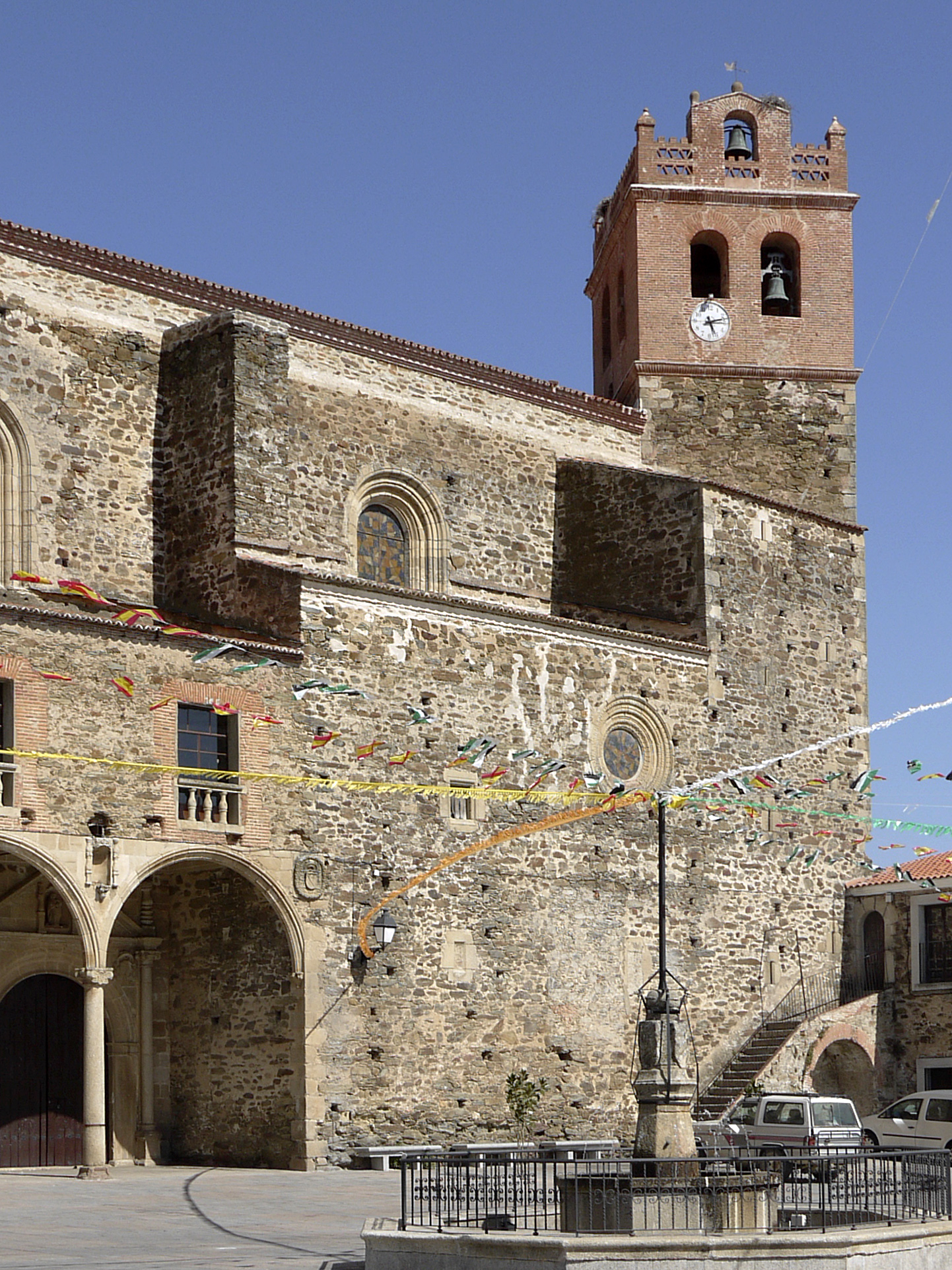 Iglesia Parroquial Ntra Sra de la Asunción, Jaraicejo, Prov. de Cáceres, Spain.